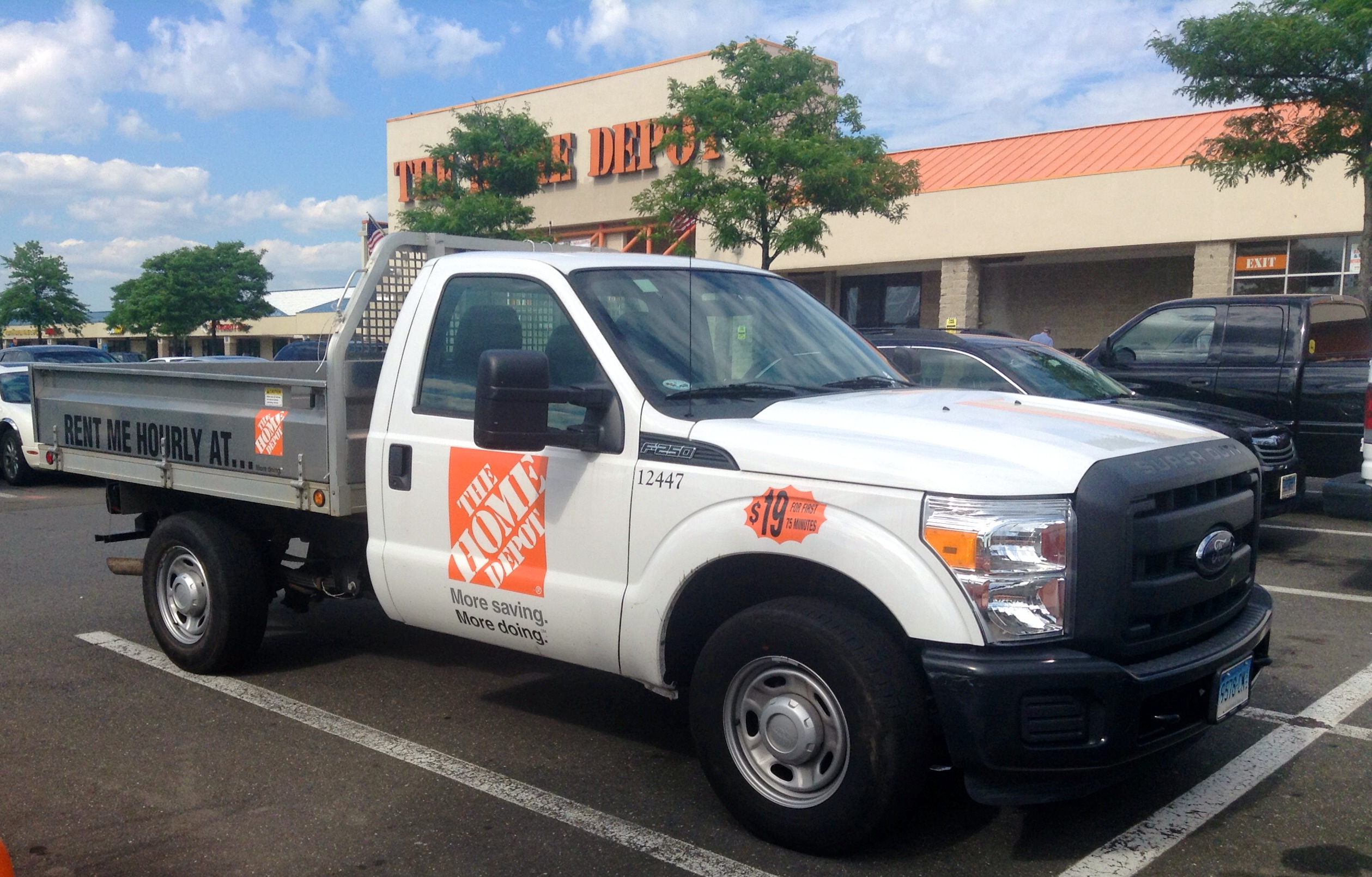 A Home Depot Load ‘N Go Flatbed Truck